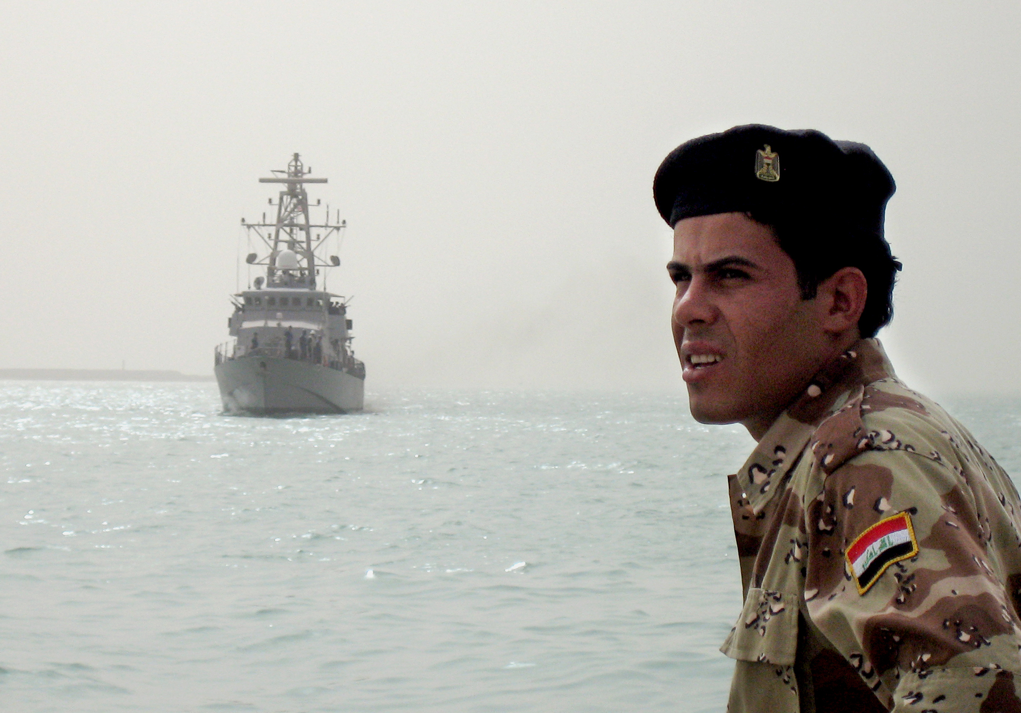 UMM QASR, Iraq (Aug. 13, 2008) An Iraqi sailor looks on from the pier as the coastal patrol boat USS Firebolt (PC 10) arrives at the port of Umm Qasr. Firebolt is making the port visit as part of Iraq Navy Day celebrations, marking the first visit by a U.S. ship to Iraq in more than 15 months. (U.S. Navy photo by Lt. Nathan Christensen/Released)